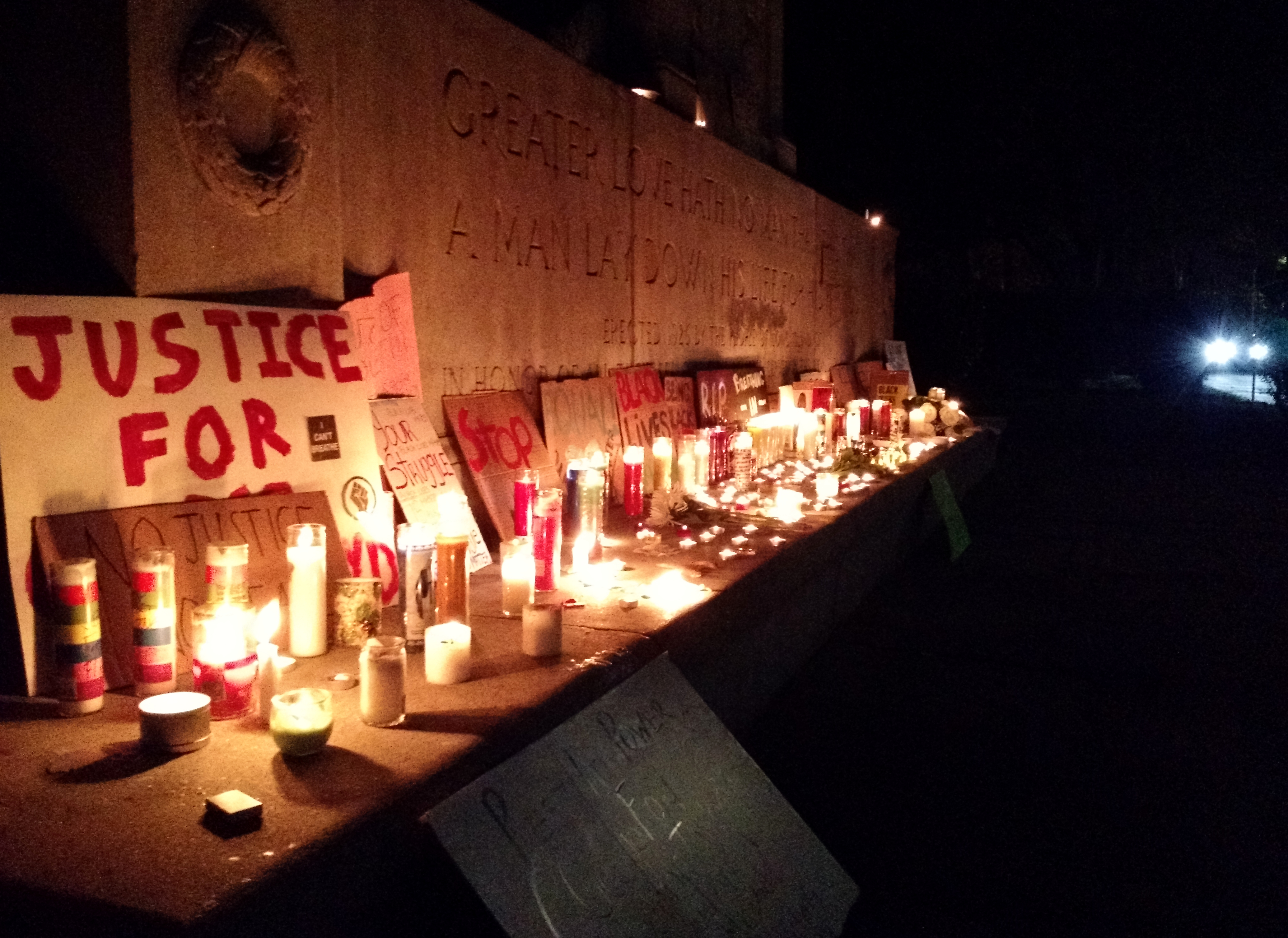 George Floyd–related and Black Lives Matter–themed protest signs and lit candles placed on the base of the Astoria Park War Memorial; the visible portion of the memorial’s inscription reads: GREATER LOVE HATH NO MAN THAN THIS THAT A MAN LAY DOWN HIS LIFE FOR HIS FRIENDS ERECTED 1926 BY THE PEOPLE OF LONG ISLAND CITY In the background the glaring headlights of a police cruiser. Seen on June 1, 2020